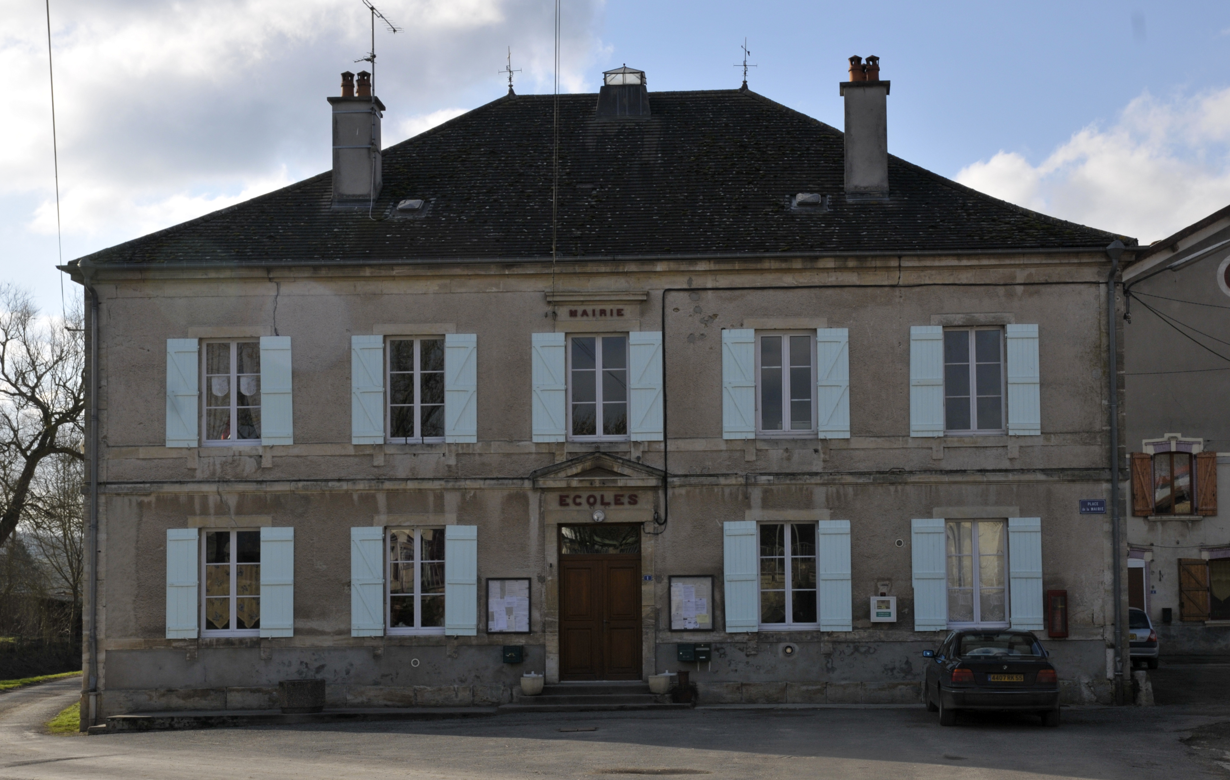 Town hall in Vilosnes-Haraumont